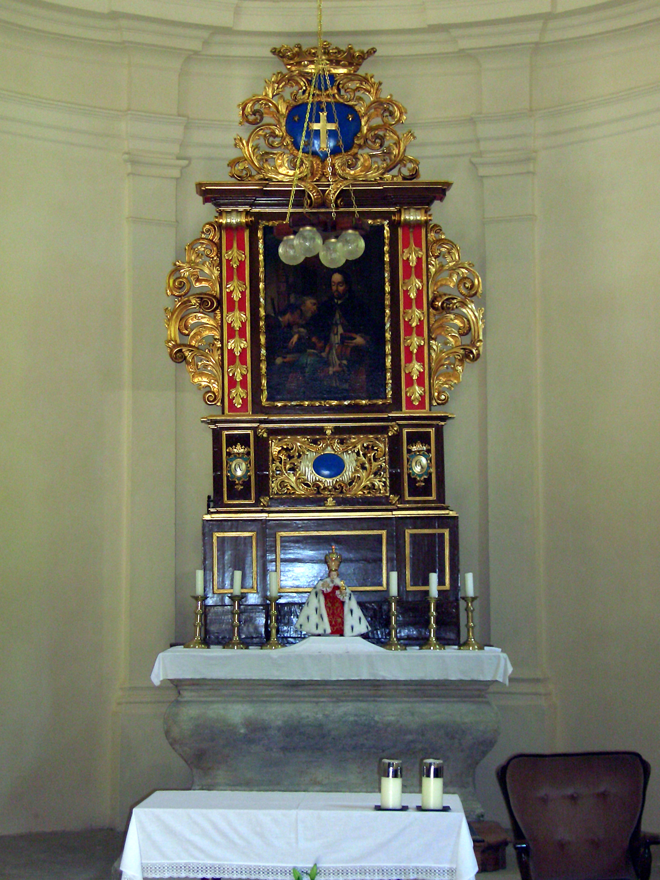 Sanctuary at the church of Jan Nepomucký, Hřensko, Czech Republic